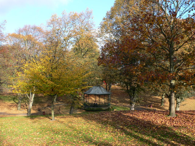 Bandstand, Bellevue Park, Wrexham, near to Wrexham/Wrecsam, Great Britain. The bandstand is set in a natural amphitheatre. It is lit in the evenings and is used for a program of concerts and bands throughout the summer designed to cater for all tastes of music.